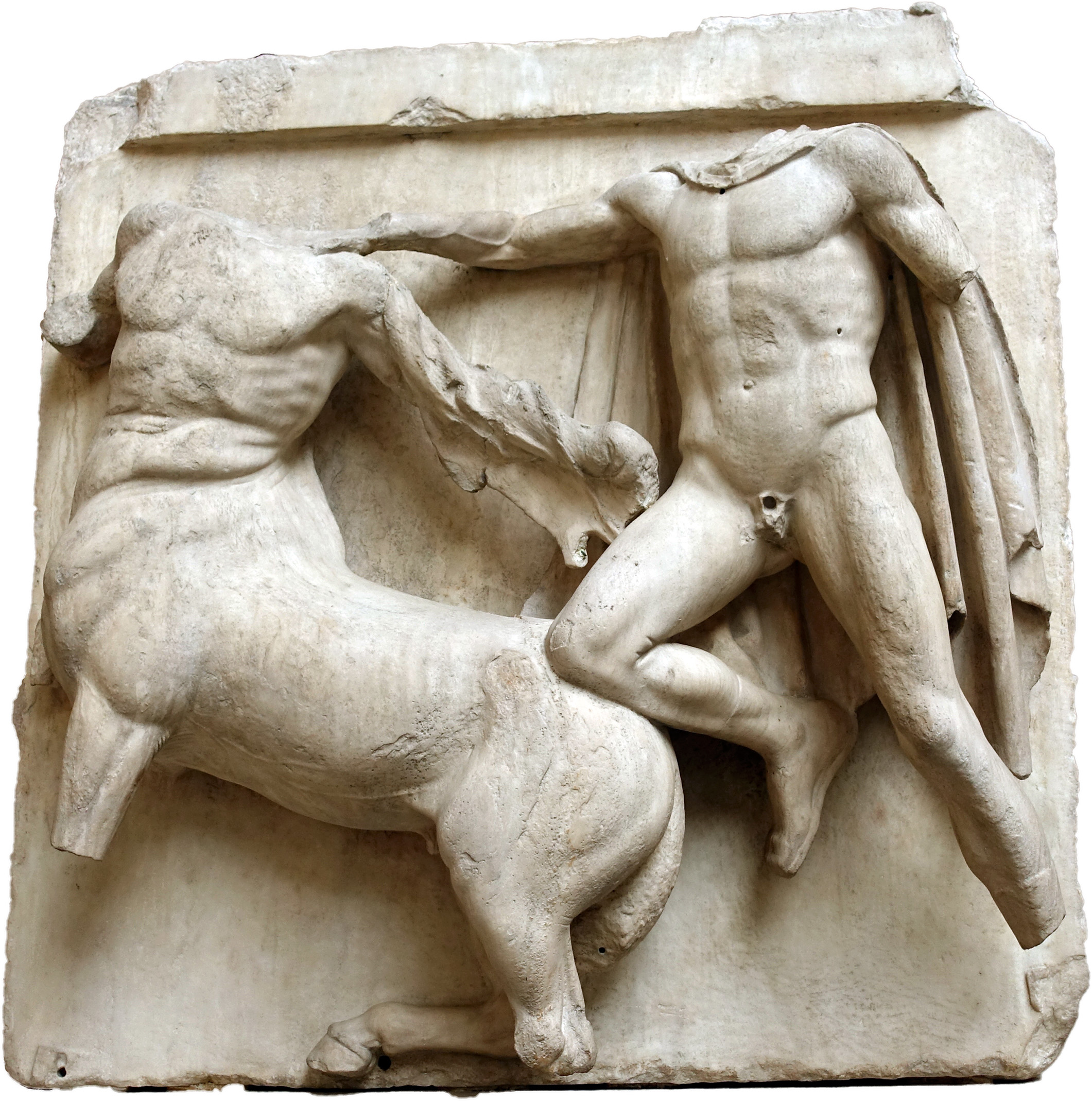 Metope of the Parthenon in British Museum, London.